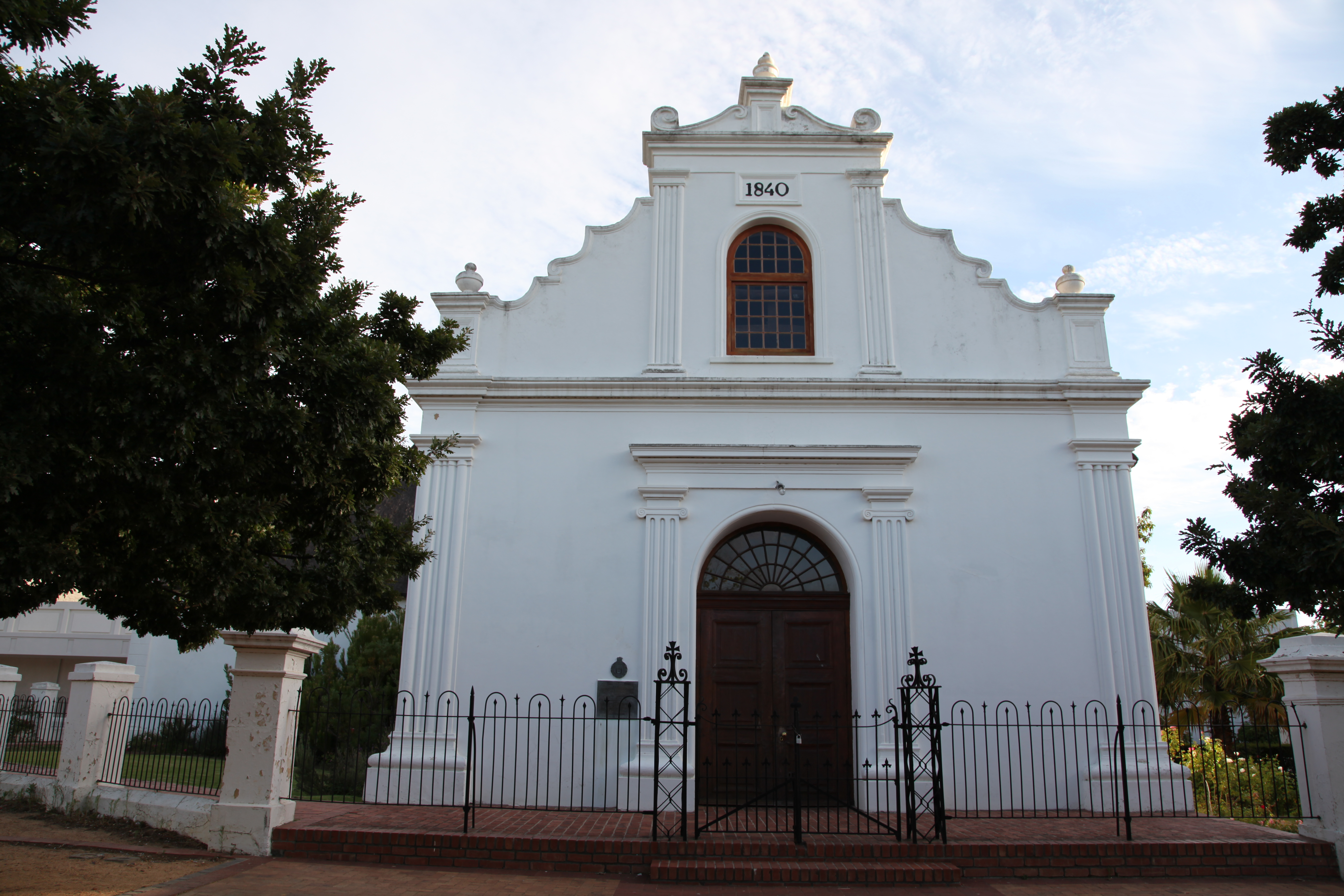 The church adjoining the village green, the Braak, in Stellenbosch. This media shows a South African Protected Site with SAHRA file reference 9/2/084/0024.